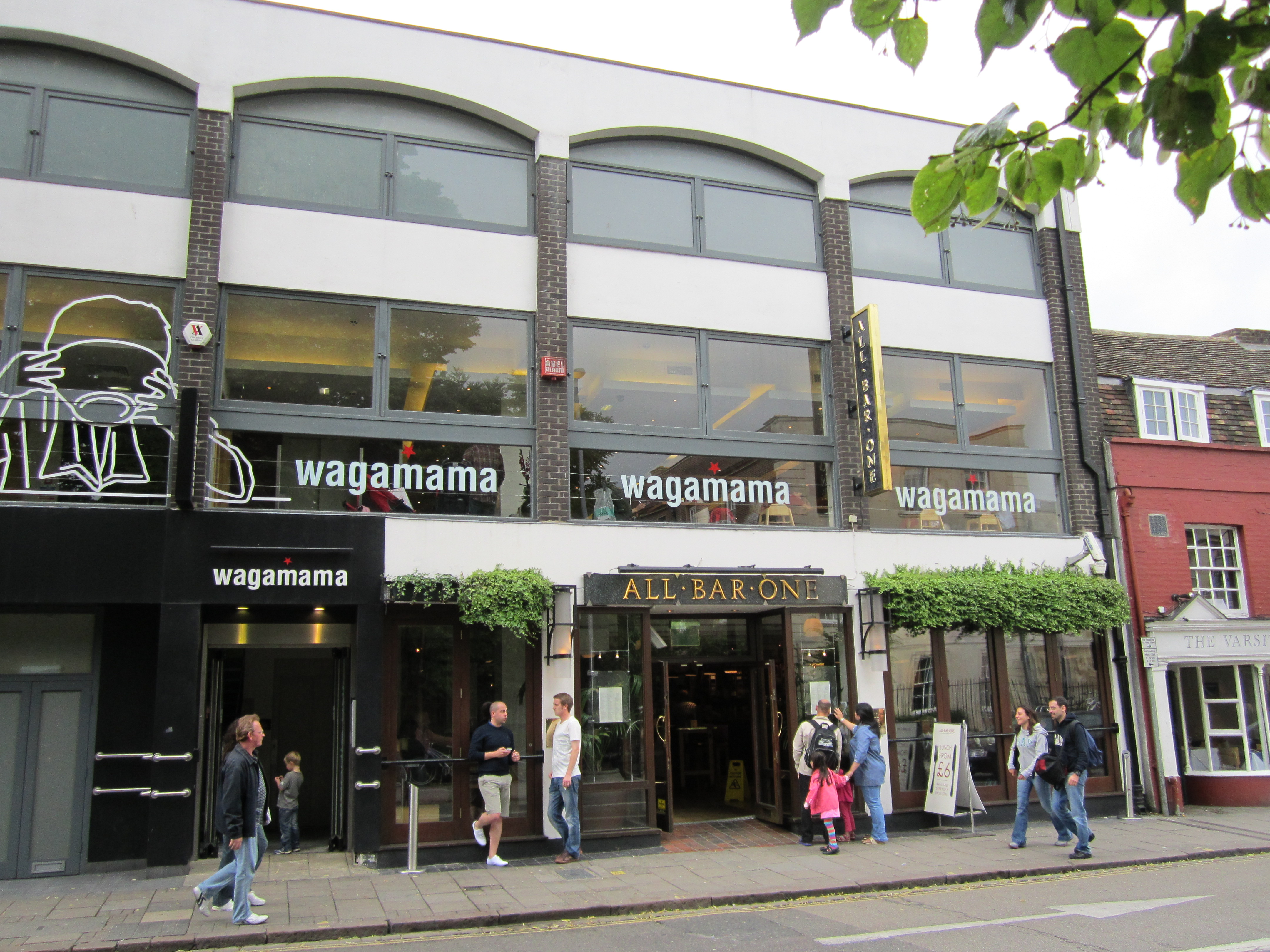 All Bar One, St Andrew's Street, Cambridge, England.